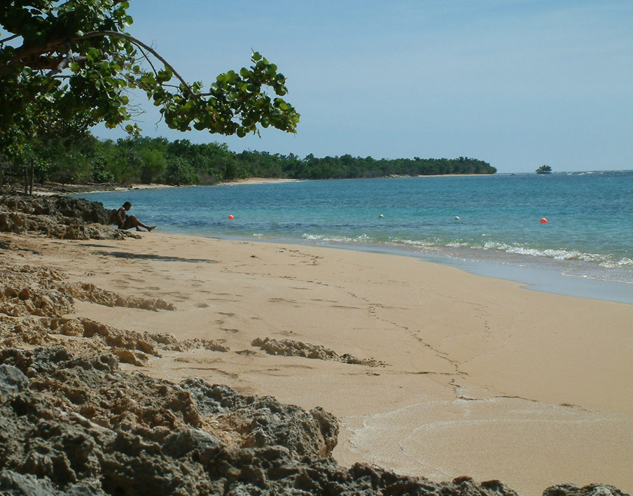 Photo by User:Op. Deo November 11,2005